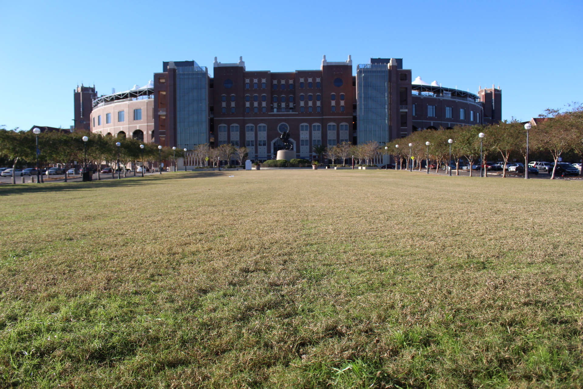 Green in front of Florida State University's Doak-Campbell Stadium on their Tallahassee campus.